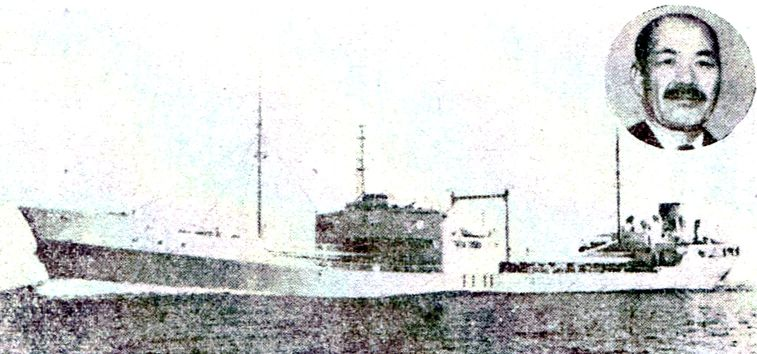 Nisshoumaru II and Tatsuo Nitta